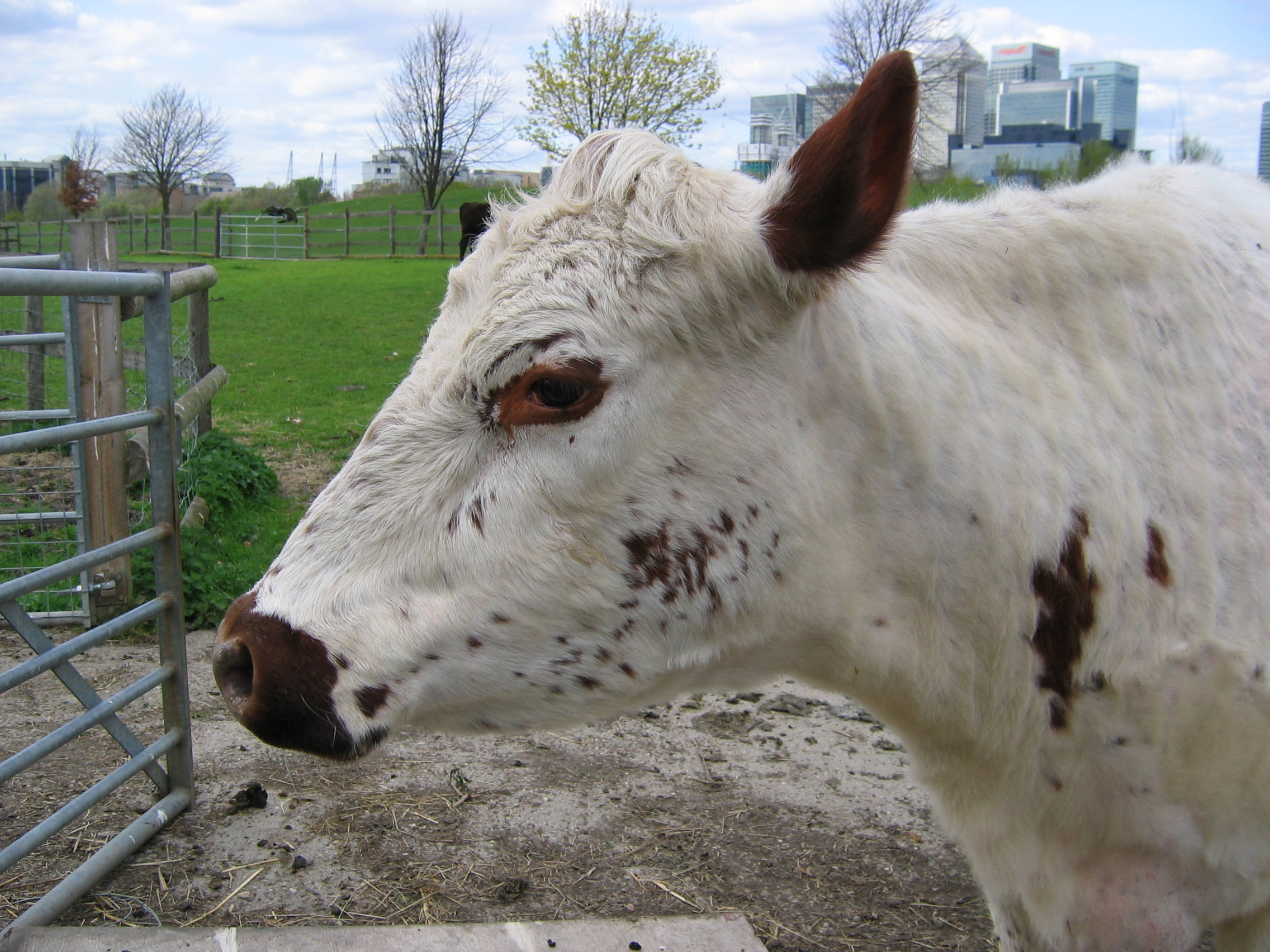 Mudchute City Farm cow head. Breed - Irish Moiled.